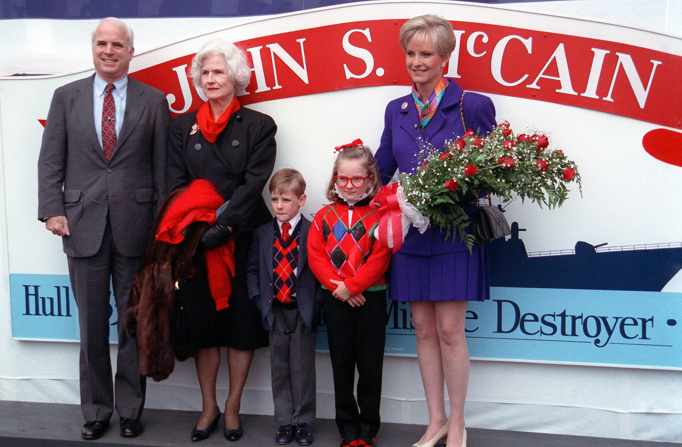 Members of the christening party for the guided missile destroyer JOHN S. MCCAIN (DDG-56) pose for a photograph after the launching at the Bath Iron Works shipyard. They are from left to right: Sen. John McCain; Mrs. Roberta McCain; John Sidney (Jack) McCain IV; Meghan McCain, and Cindy McCain, sponsor and wife of Sen. McCain. Location: BATH, MAINE (ME) UNITED STATES OF AMERICA (USA)